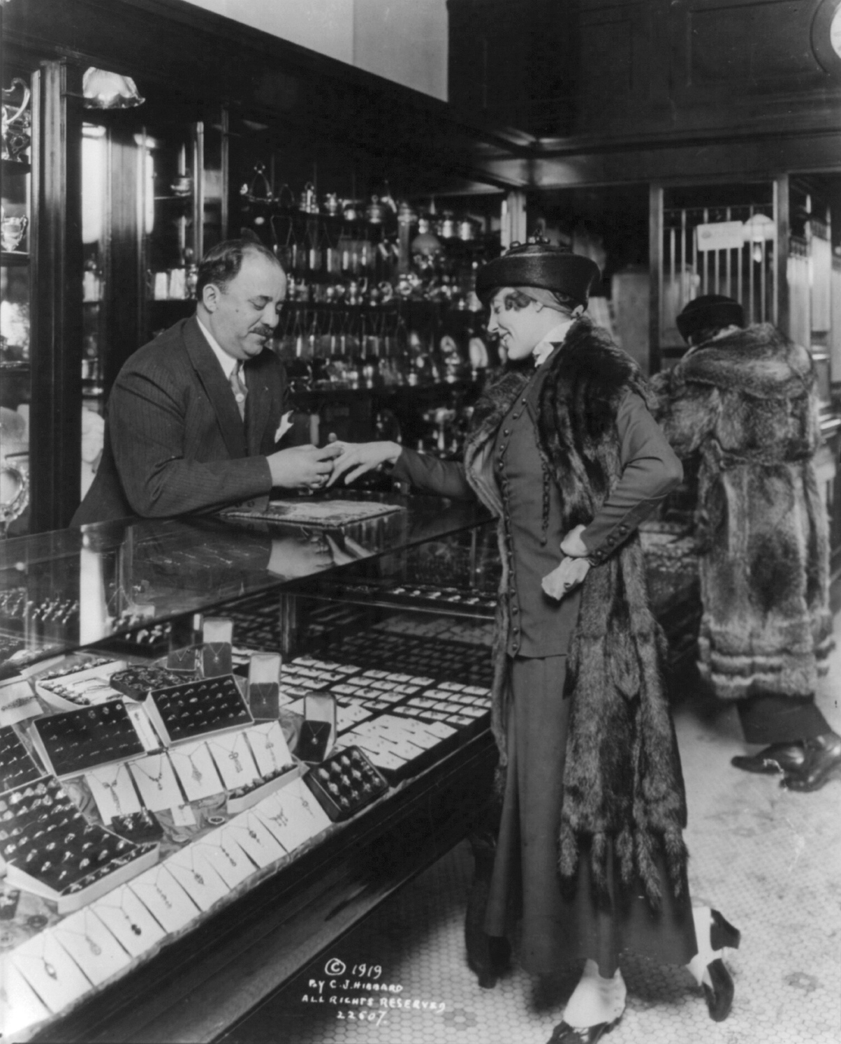 Annette Kellerman trying on a ring in Kohn's, 13 South 5th Street, Minneapolis, Minnesota, 1919. Notes: Jewler's correct name is Max A. Kohen. Photo discussed at [1]